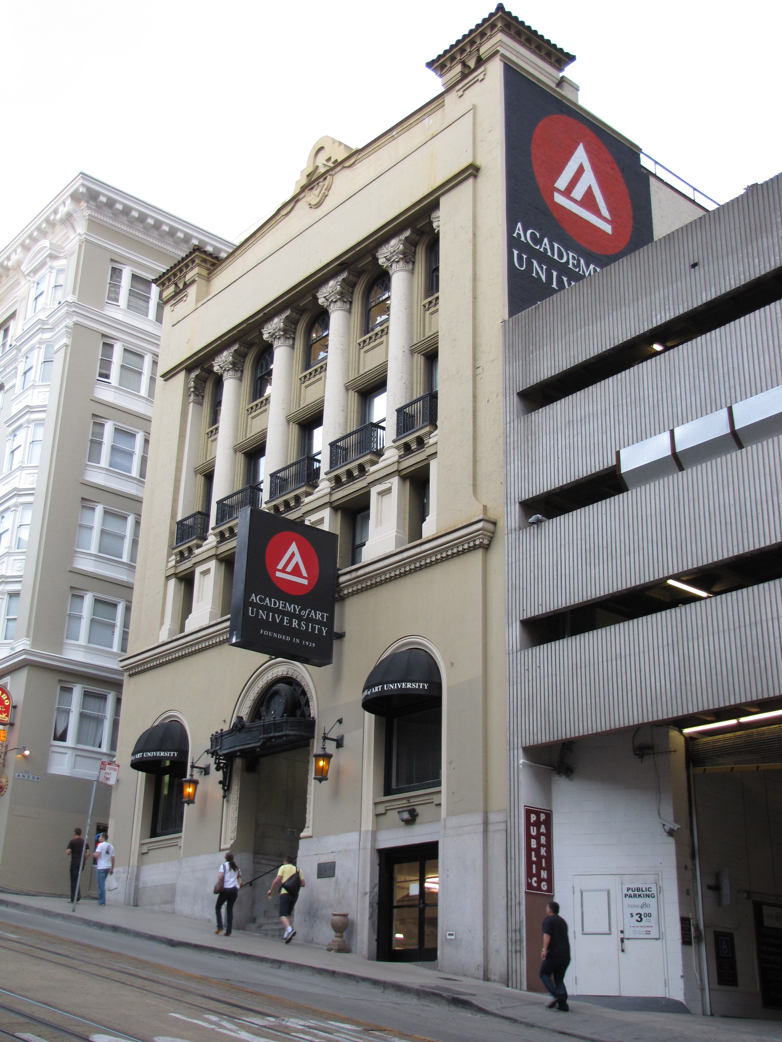 School building at Academy of Art University in San Francisco